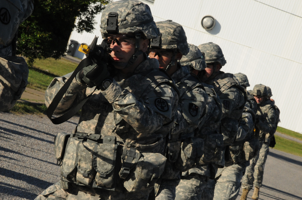 Soldiers participate in reflexive fire training on Sept. 29 during the 2009 Department of the Army Best Warrior Competition held Sept. 28 - Oct. 2 at Fort Lee, Va. Sgt. Jonathan Jordan, representing U.S. Army Medical Command, is pictured in front.